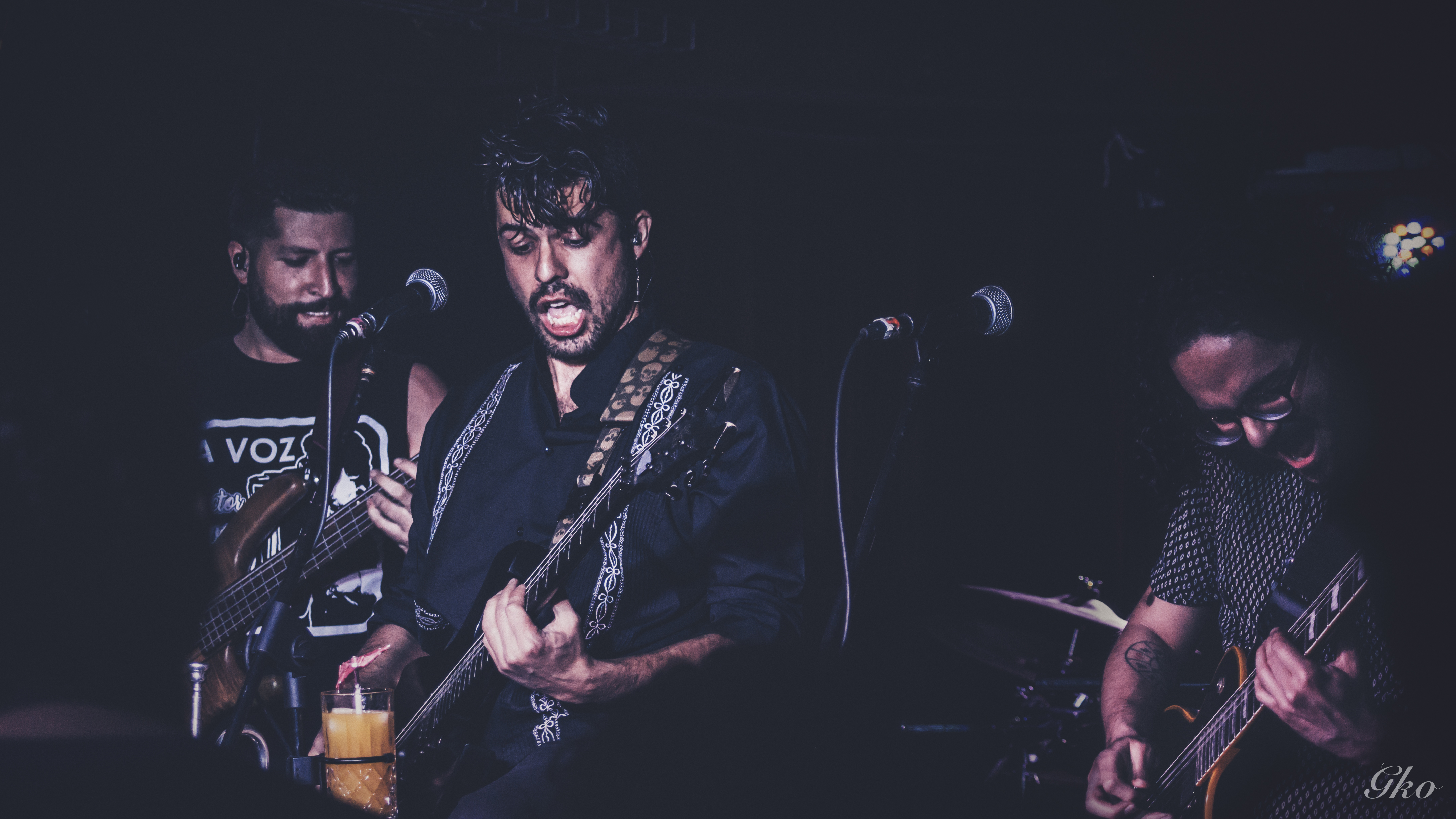 This is a photo of Acrania (band) playing live in 2019